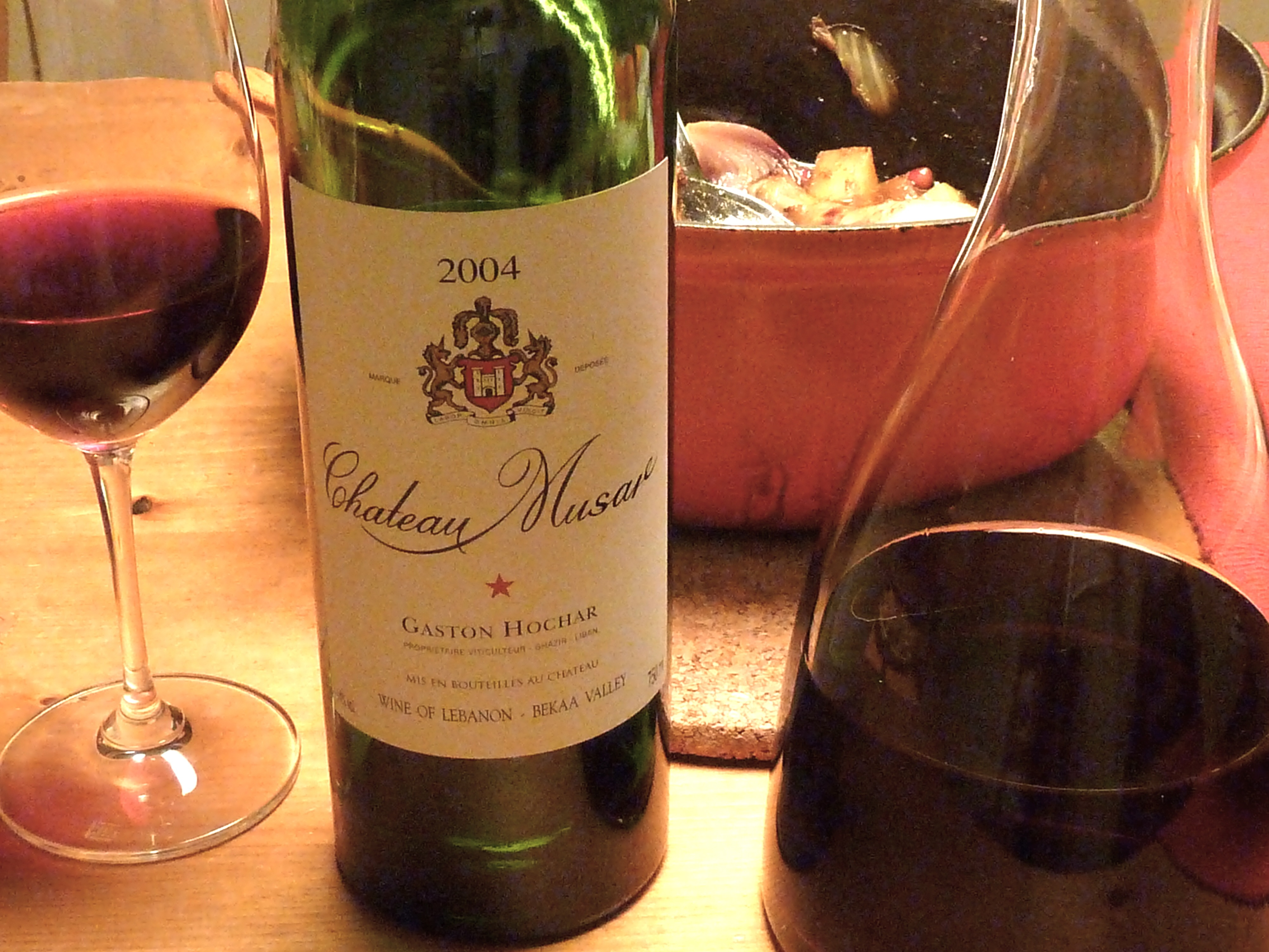 Château Musar 2004 Békaa Valley Libanon